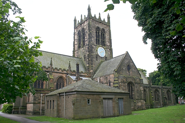 All Saints Church Northallerton, Hambleton in North Yorkshire